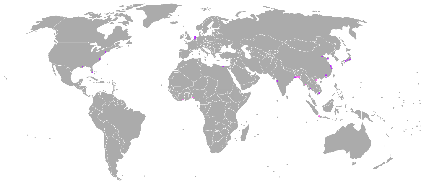 Map showing the major cities (in terms of assets and population) that are under threat by the rising sea level. The cities indicated are under threat of even a small sea level rise (of 1.6 foot/49 cm) compared to the level in 2010). Even moderate projections indicate that such a rise will have occured by 2060[1][2] The map was based on data of a 2007 OECD report[3][4] The report also stated that the total value of the assets exposed in 2005 across all cities is about US$3,000 billion. The top 20 cities in the world in terms of assets exposed to coastal flooding was marked in purple; additional cities that are in the top 20 in terms of population exposed to coastal flooding were marked in pink (there are only 27 cities on the whole map since these cities that have the largest amount of assets exposed to it also have the most people exposed to it). The list of the top 20 cities exposed to coastal flooding is: Miami, USA Guangzhou, P.R. of China New York-Newark, USA Kolkata, India Shanghai, P.R. of China Mumbai, India Tianjin, P.R. of China Tokyo, Japan Hong Kong, P.R. of China Bangkok, Thailand Ningbo, P.R. of China New Orleans, USA Osaka-Kobe, Japan Amsterdam, The Netherlands Rotterdam, The Netherlands Ho Chi Minh City, Vietnam Nagoya, Japan Qingdao, China Virginia Beach, USA Alexandria, Egypt The list of 7 additional cities that are in the top 20 most-populous cities exposed to coastal flooding is: Rangoon, Myanmar Hai Phòng, Vietnam Khulna, Bangladesh Lagos, Nigeria Abidjan, Cote D'Ivoire Chittagong, Bangladesh Jakarta, Indonesia